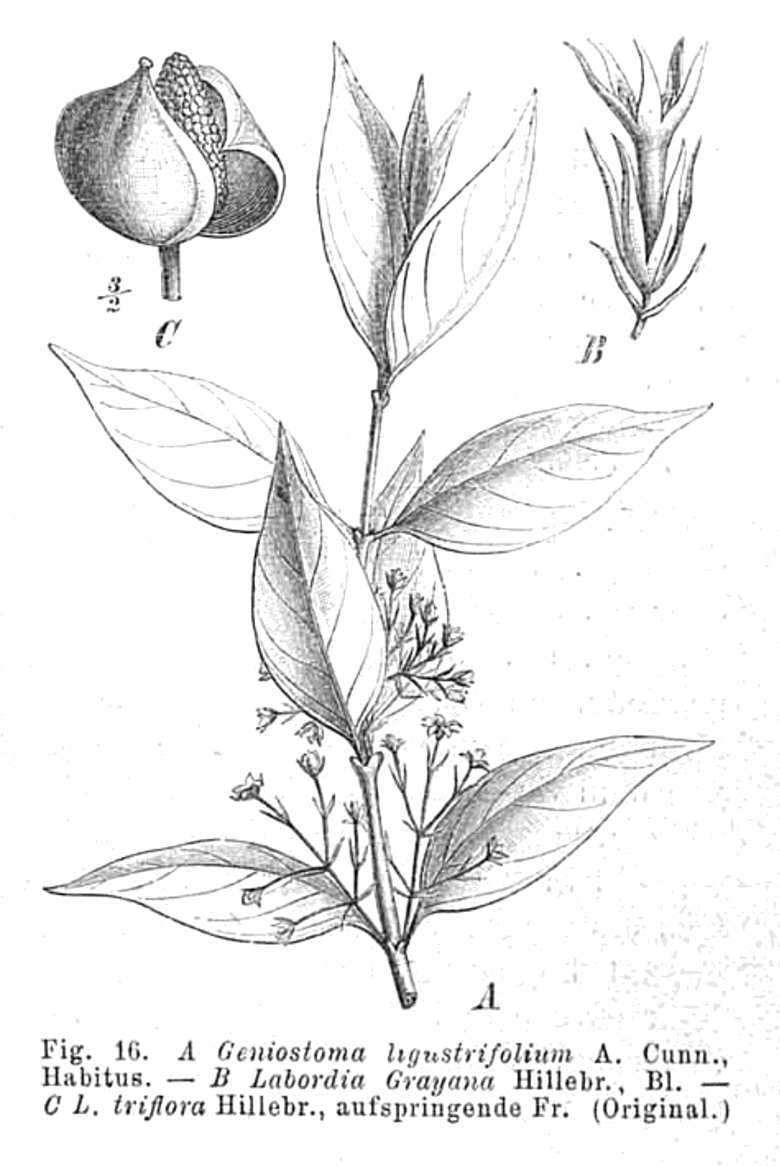 Loganiaceae spp. A. Geniostoma ligustrifolium A.Cunn.: Habitus. B. Labordia grayana Hillebr.: Leaves. C. L. trifolia Hillebr.=L. tinifolia var. lanaiensis Sherff: Starting fruit.